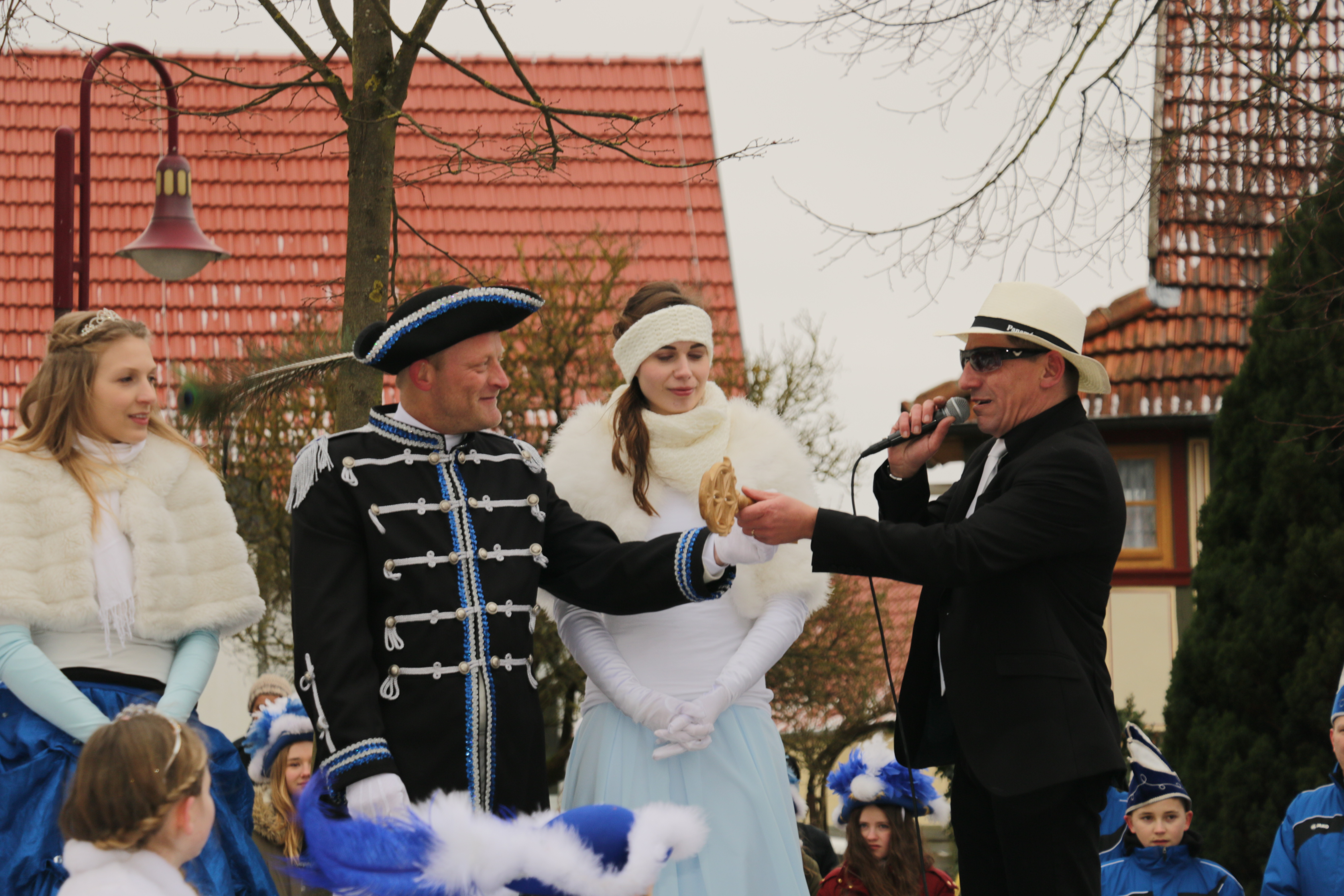 11/02/2018: Diedorf: Carnevalsumzug, Schlüsselübergabe.